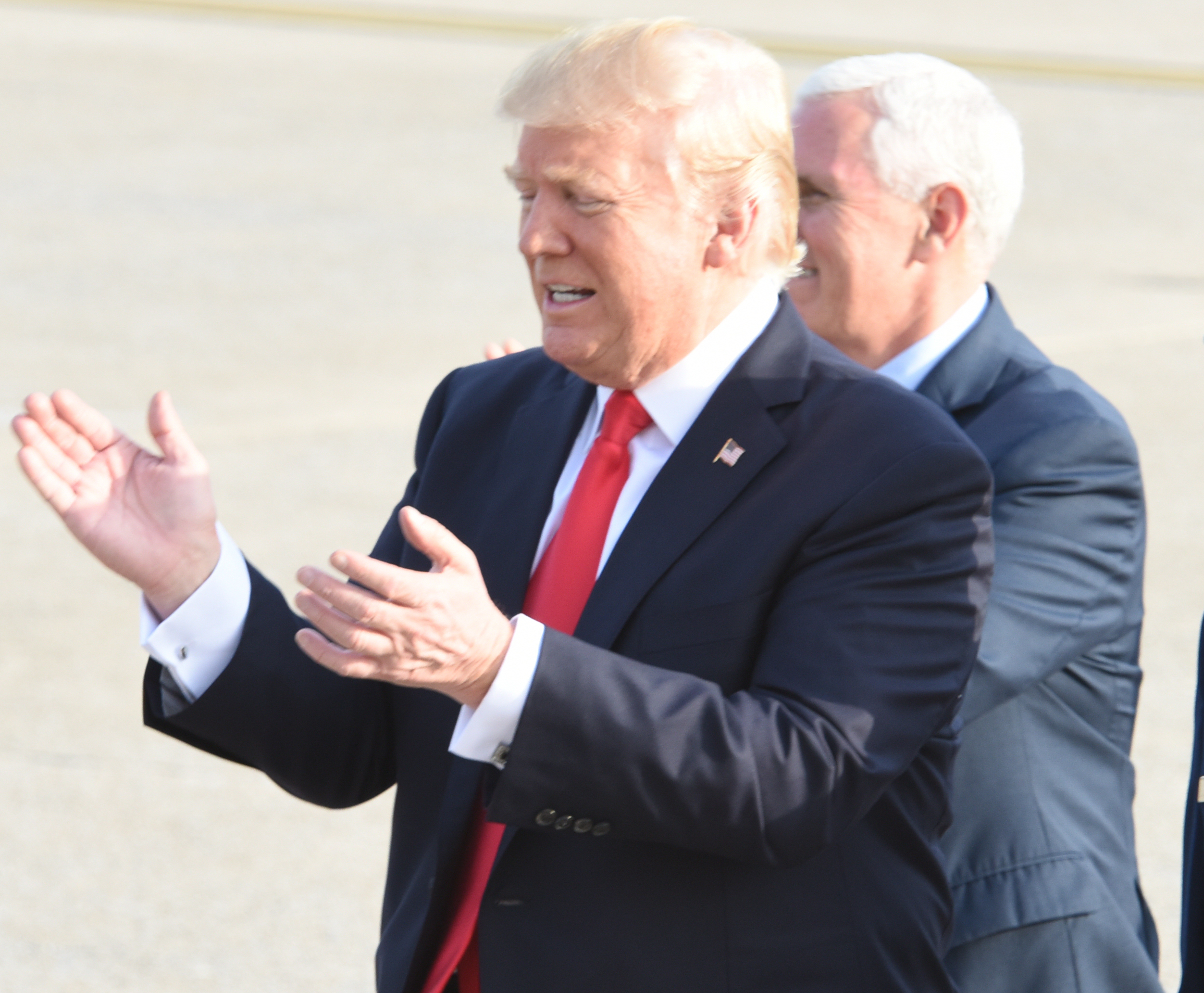 President Donald J. Trump and Vice President Mike Pence walk with 193rd Special Operation Wing Commander Benjamin “Mike” Cason over to 193rd SOW Airmen, and Airmen’s family and friends, to shake their hands, Middletown, Pennsylvania, April 29, 2017. The president and vice president landed at the 193rd SOW and were on their way the Harrisburg Farm Show Complex for President Trump’s 100th day rally when they made time to greet those that awaited their arrival. (U.S. Air National Guard Photo by Master Sgt. Culeen Shaffer/Released)